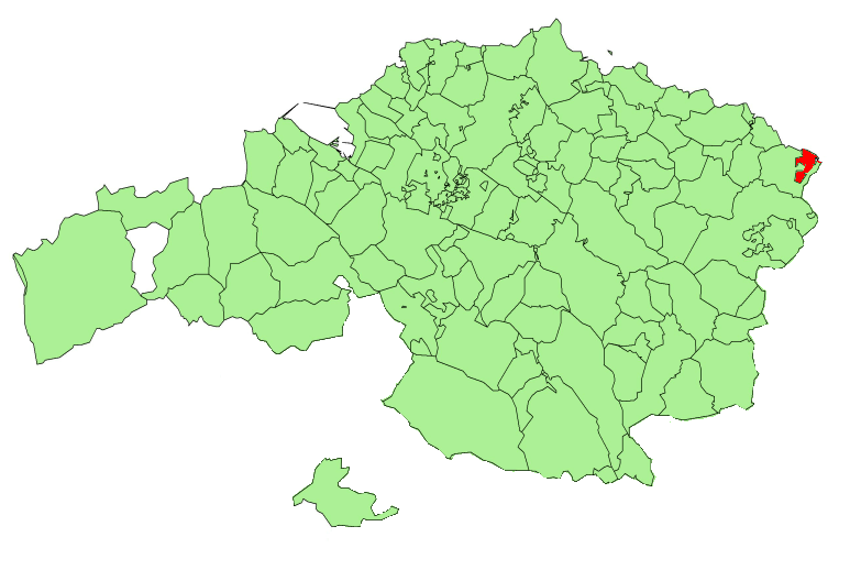 Ondarroa municipality in the province of Biscay